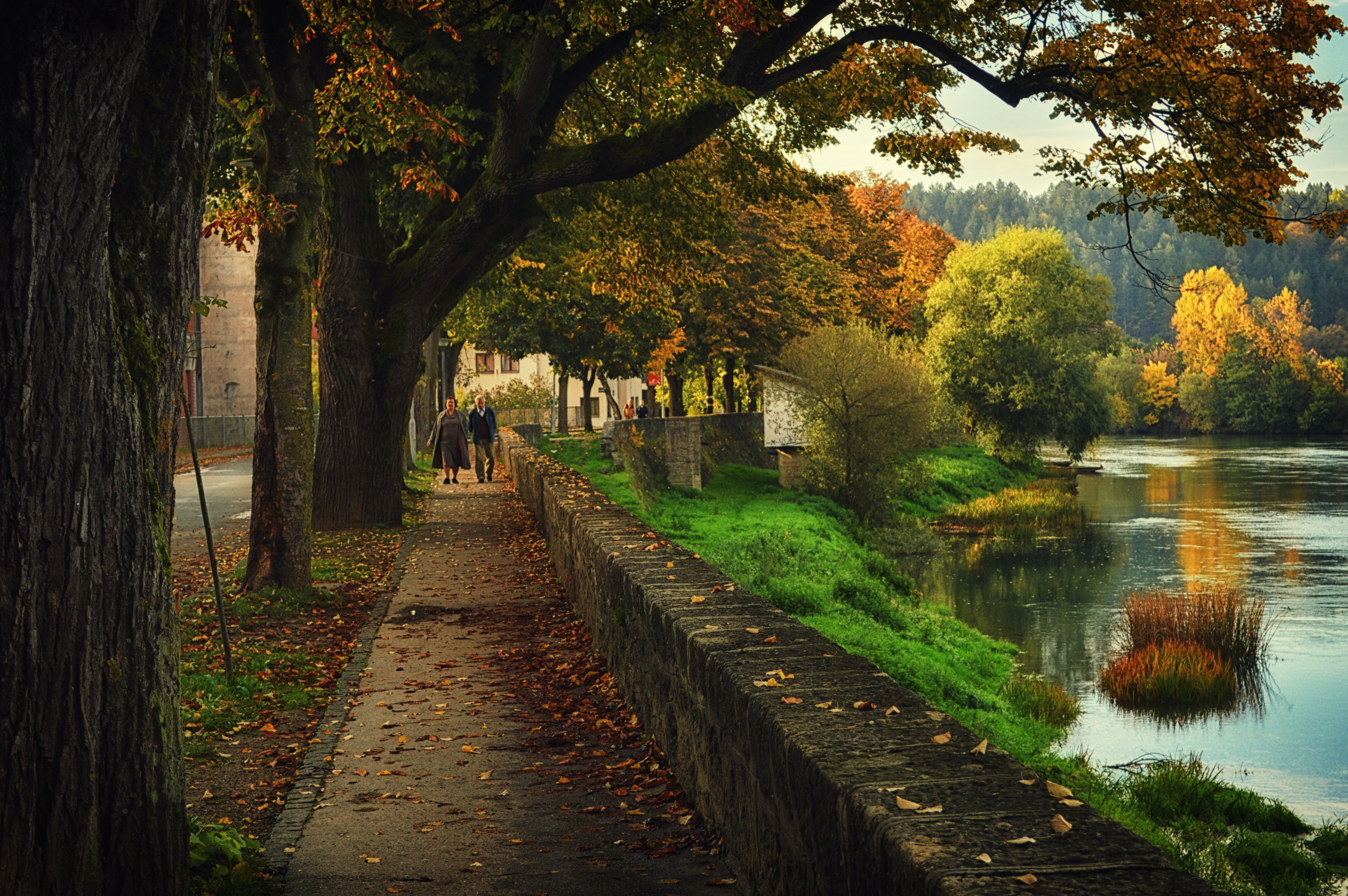 2 old people walking an autumn day in Novi Grad. This image was uploaded as part of Trace of Soul 2018.